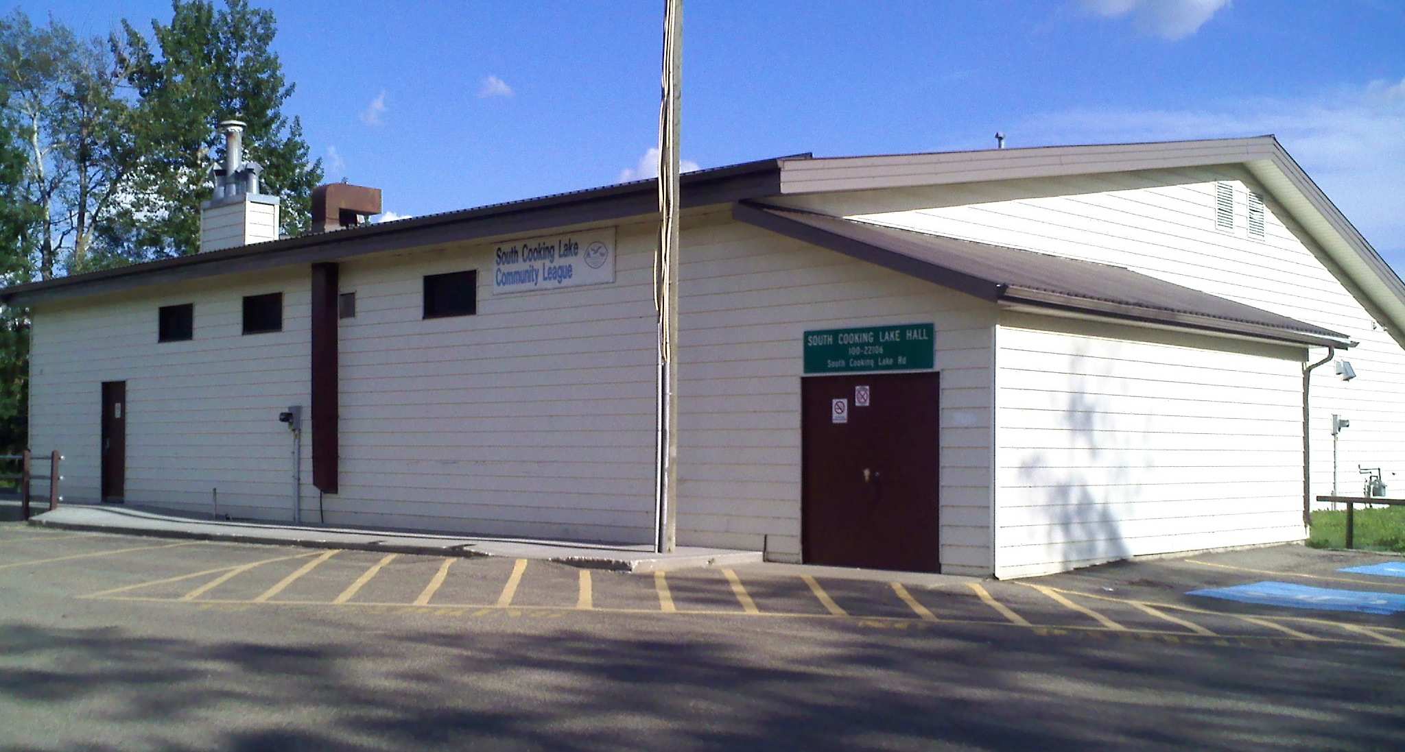 Community Hall at South Cooking Lake, Alberta.